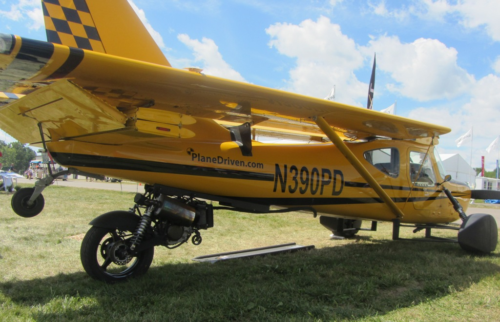 Plane Driven PD-2